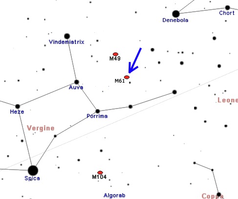 Map of M61